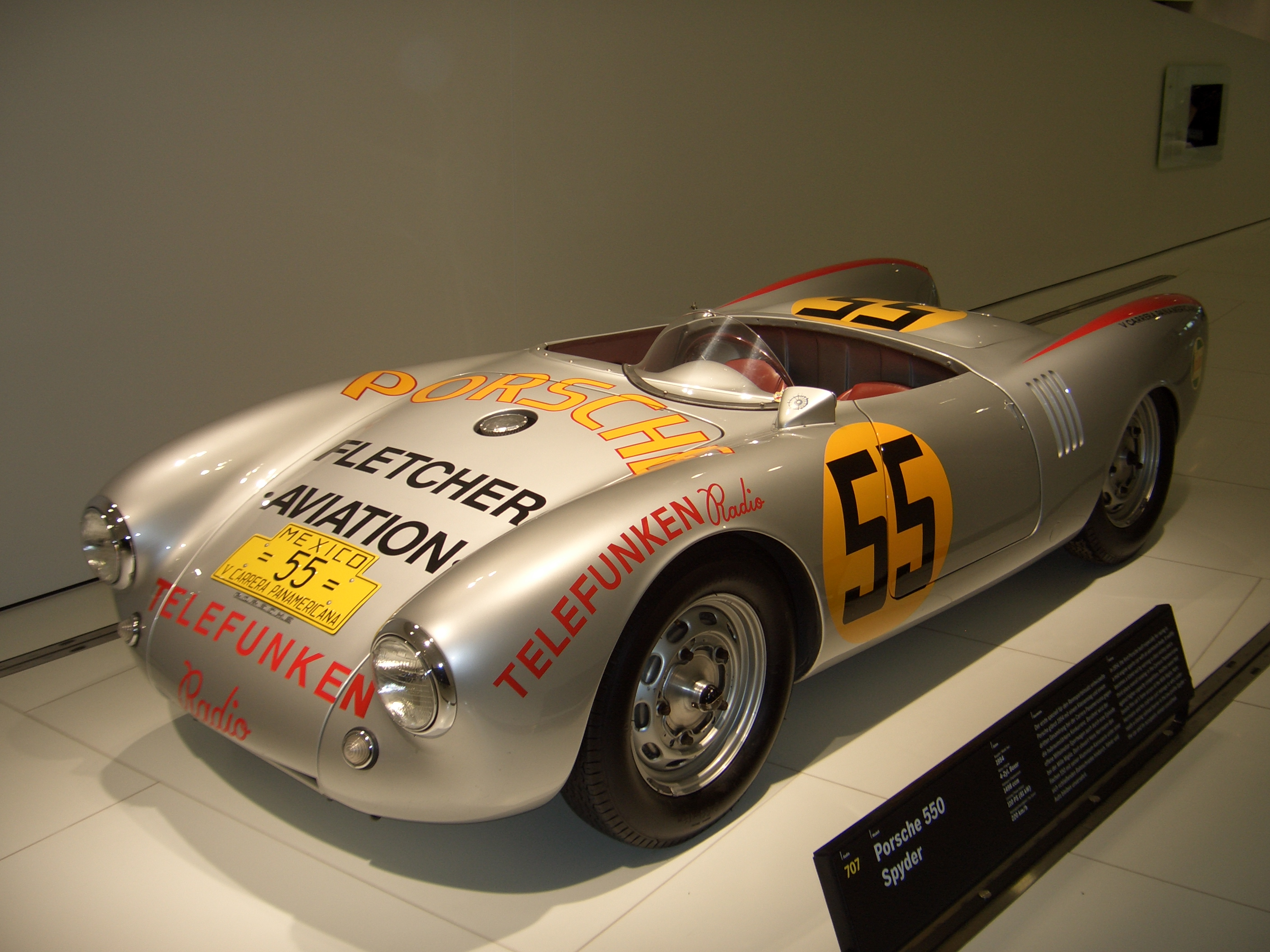 see filename for despcription - seen at Porsche Museum Native namePorsche-MuseumLocationStuttgartCoordinates48° 50′ 07″ N, 9° 09′ 06″ E Established1976 (old museum) 2009 (new museum)Web page control : Q328623 VIAF: 138511768 GND: 2087859-X SUDOC: 155641123 NKC: ko2015876799 institution QS:P195,Q328623